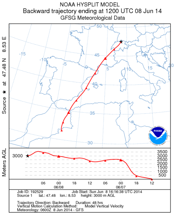 Trajectory calculation by NOAA showing the path of the air mass which arrived 8 June at 12.00 UTC 3000 meters above Zurich followed in the preceding 48 hours.